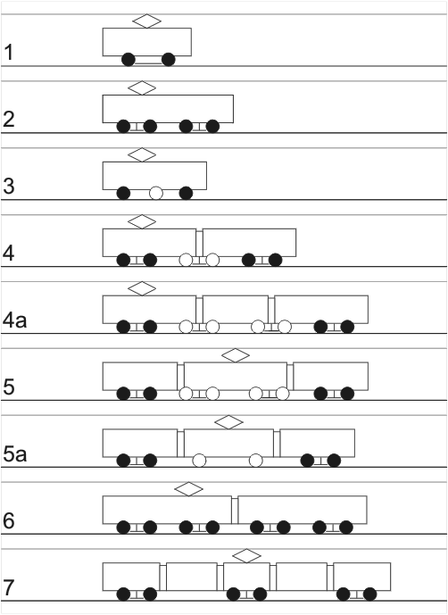 Tram/Streetcar types